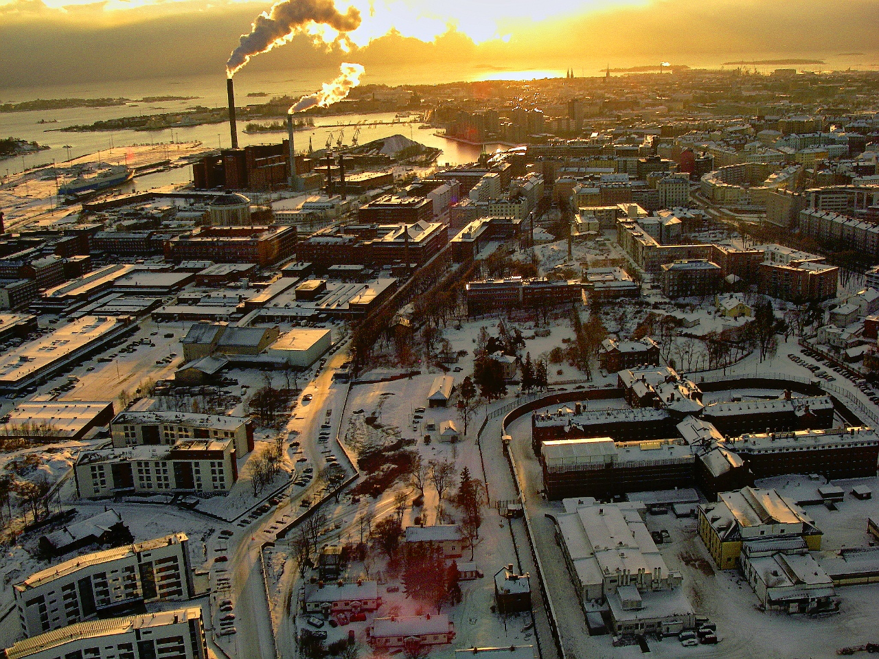 Sörnäinen in Helsinki from air